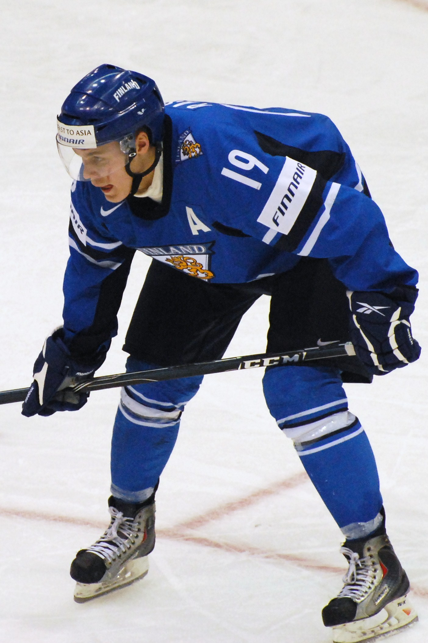 Joonas Rask during the 2010 World Junior Ice Hockey Championships.